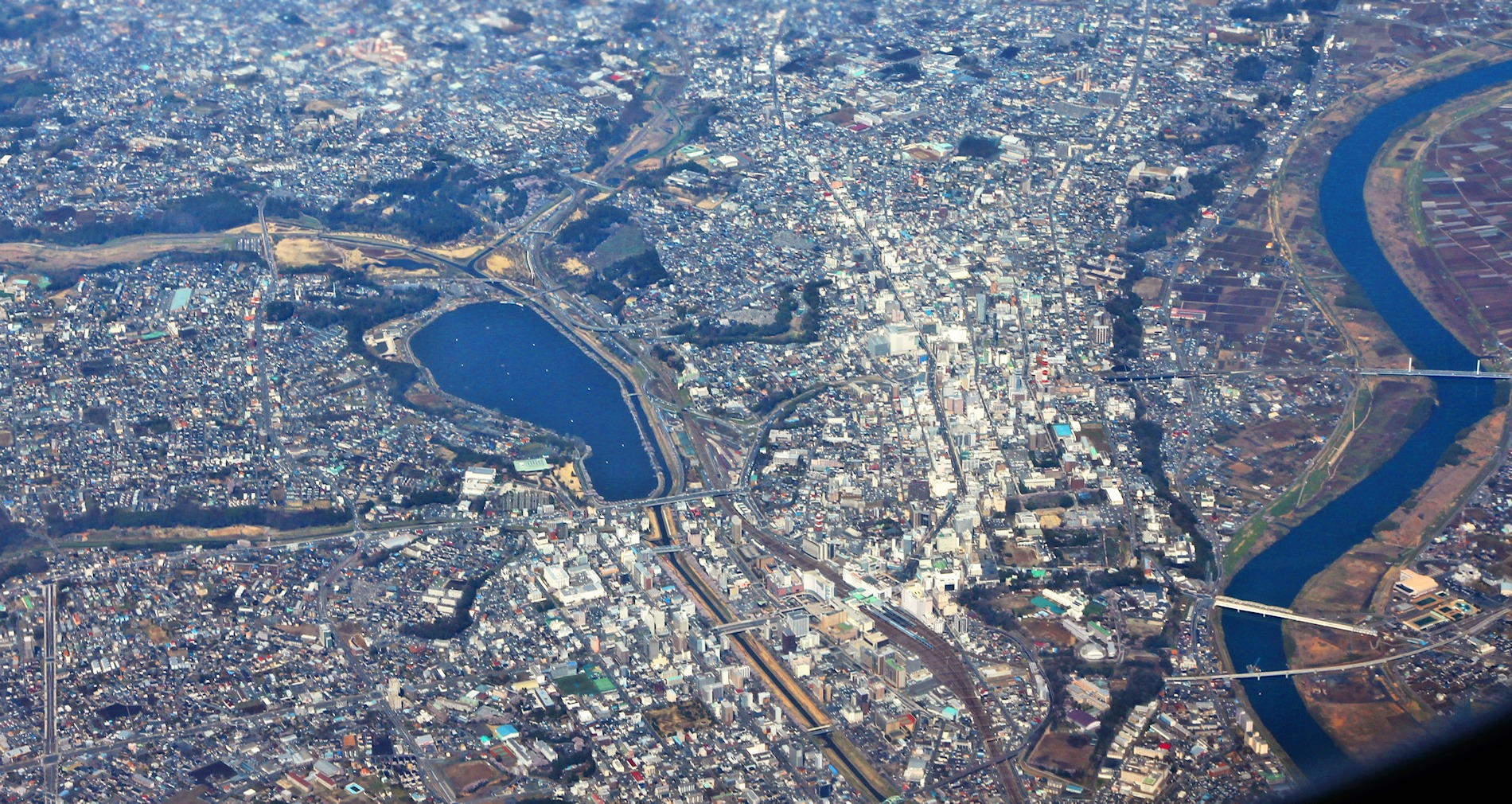 Aerial view of Mito, Ibaraki Prefecture, Japan.